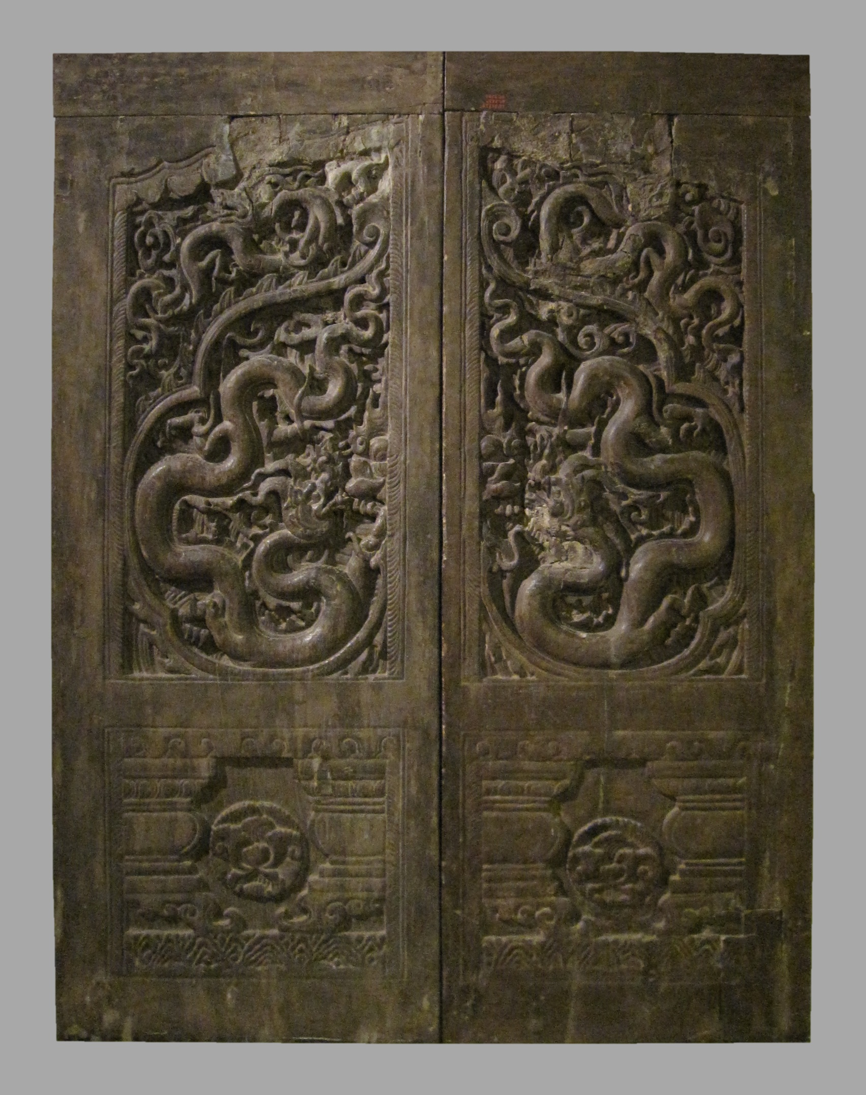 Doors. Carved wood, Trần dynasty, 13th-14th century. Phổ Minh pagoda, Nam Định province, northern Vietnam. Architectural element. National Museum of Vietnamese History, Hanoi.